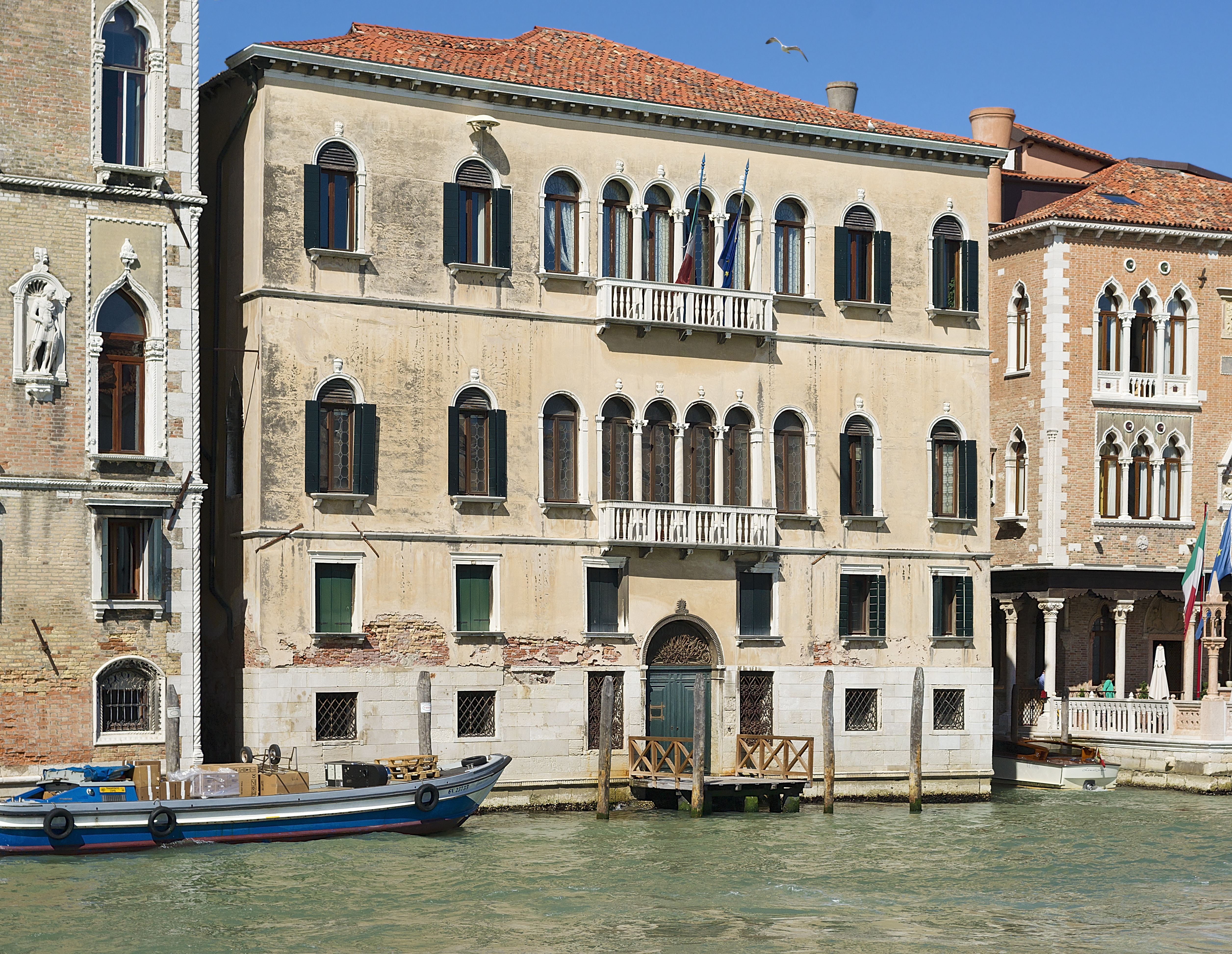 Palazzo Moro, ("Casa di Otello") Venice facade.